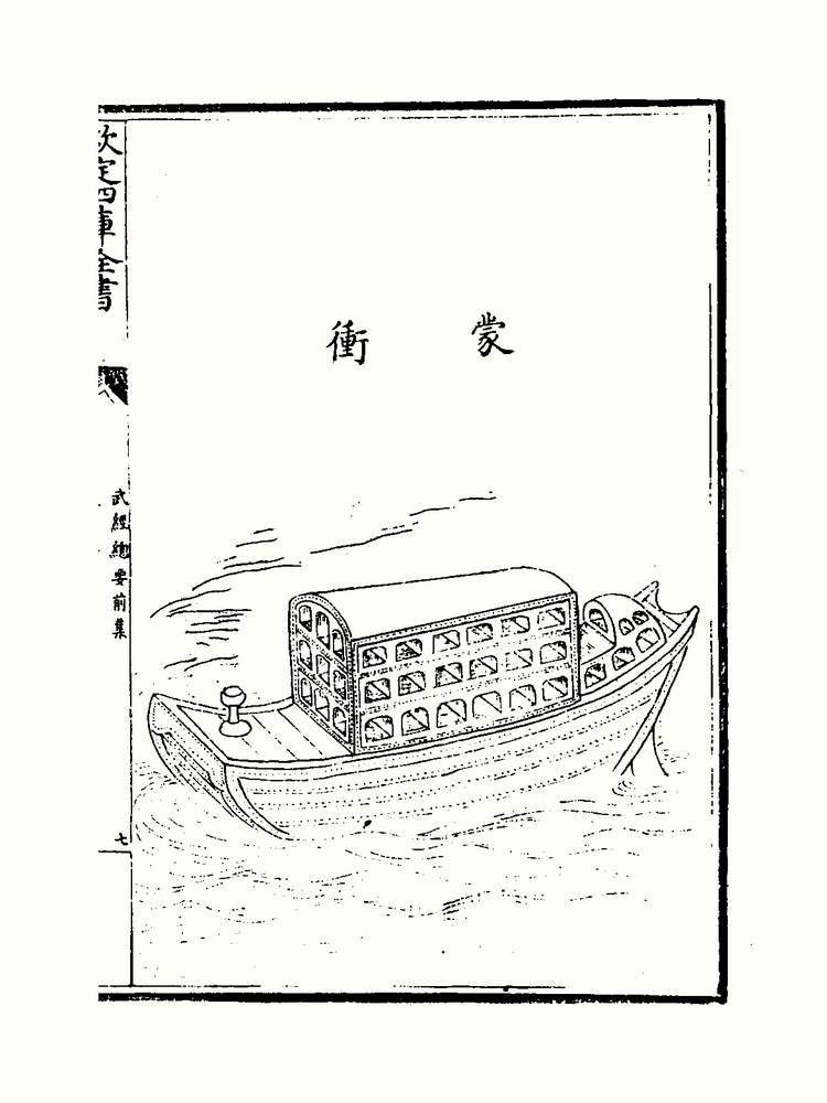 Battle ship in Wujing Zongyao